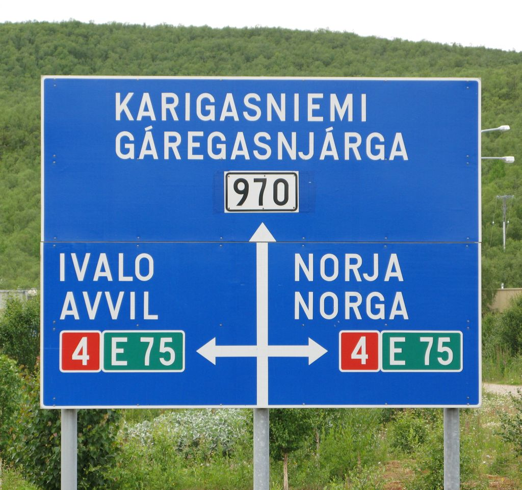 Road sign in crossing of Highway 4 (E75) and Regional road 970 in Utsjoki, Finland.